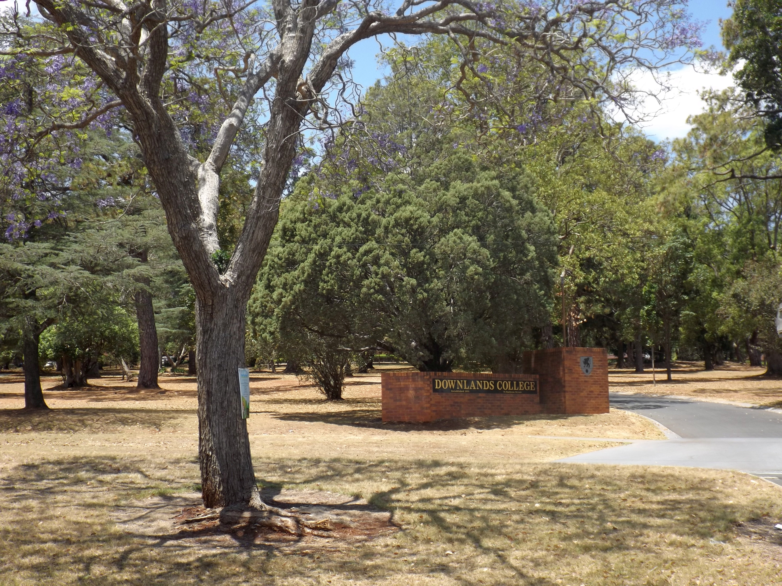 Photo of the entrance to Downlands College on Ruthven Street in Harlaxton, Toowoomba, Queensland, Australia.